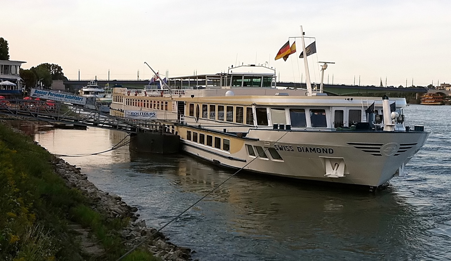 Germany, Bonn, Brassertufer: river cruiser Swiss Diamond.